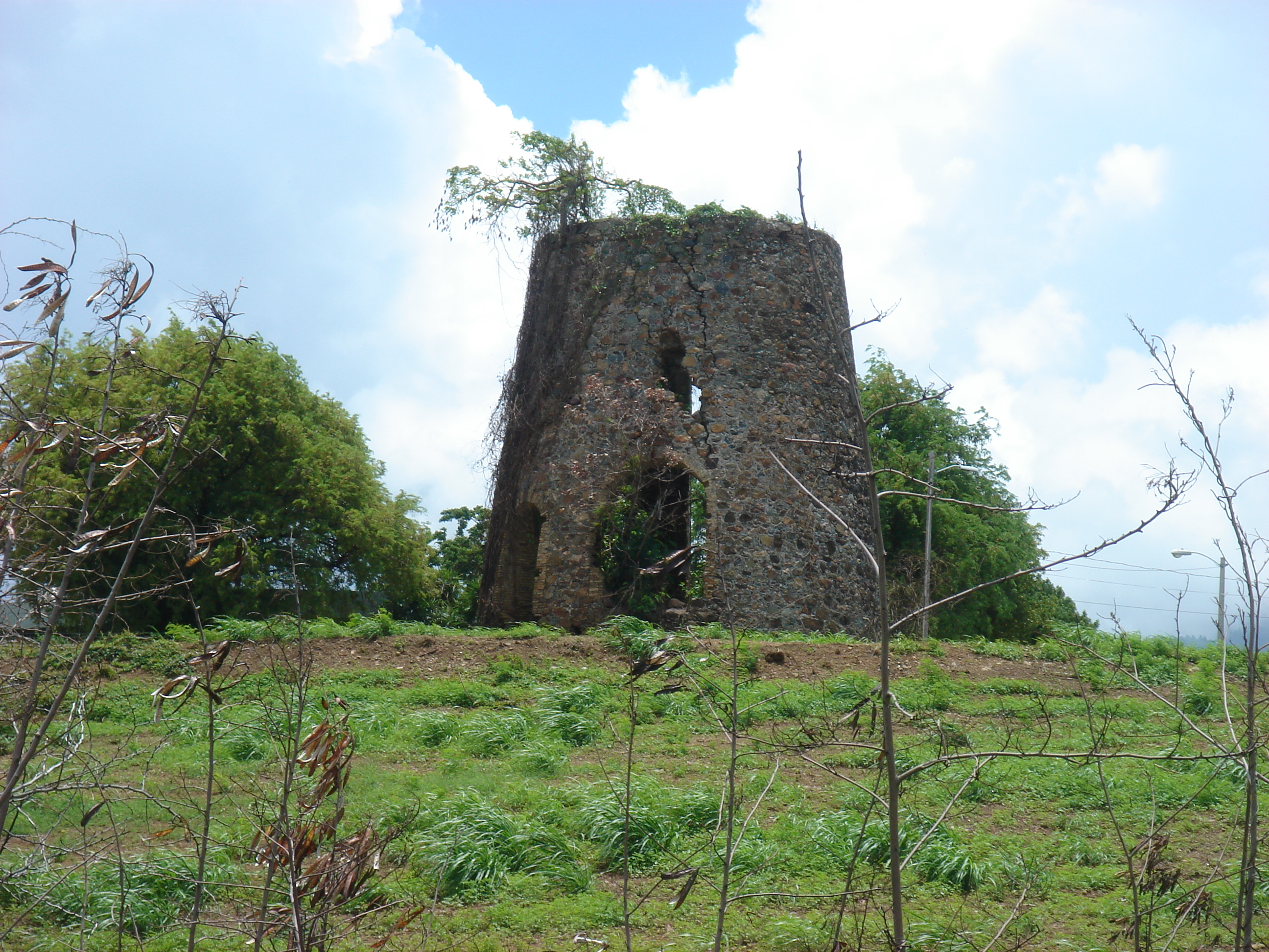 6/29/2006: Ruins of what used to be a sugar mill in Guayama, PR.